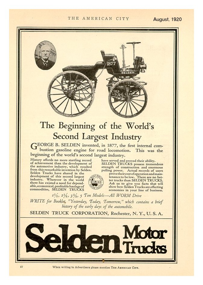 1920 Selden Truck Corp. ad showing a replica of the Selden Road engine invented in 1877.